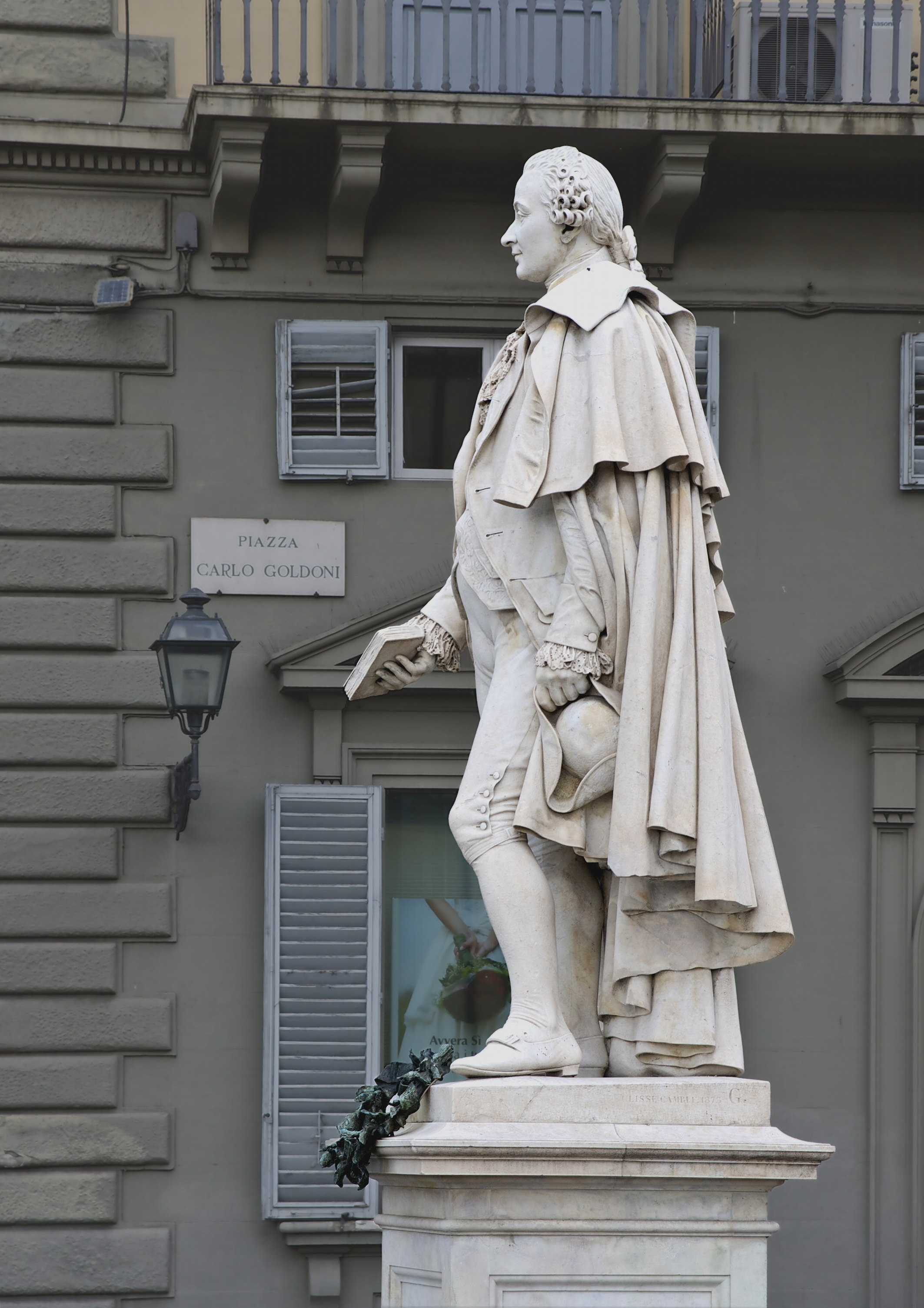 Statue of Carlo Goldoni made by Ulisse Cambi in 1873. Florence, Italy.